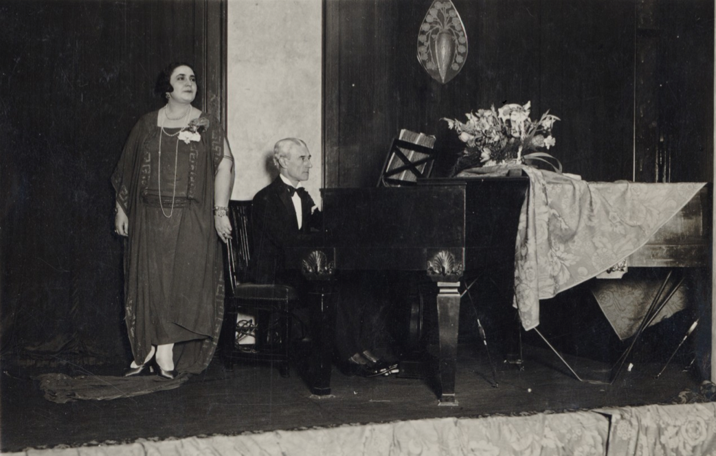 Maurice Ravel at the piano, accompanying the Russo-american soprano Nina Koshetz. Photo taken in January 1928 aboard the boat to the United States, during Ravel's american tour.